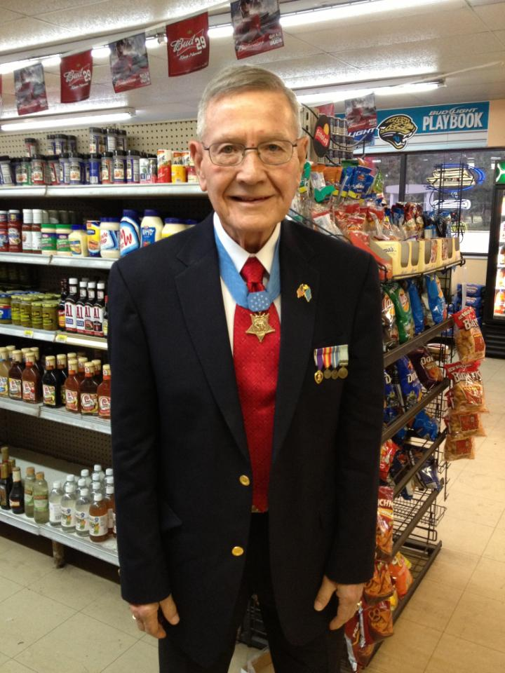 CPL Duane Dewey July 4th, 2013 Hasting, Florida